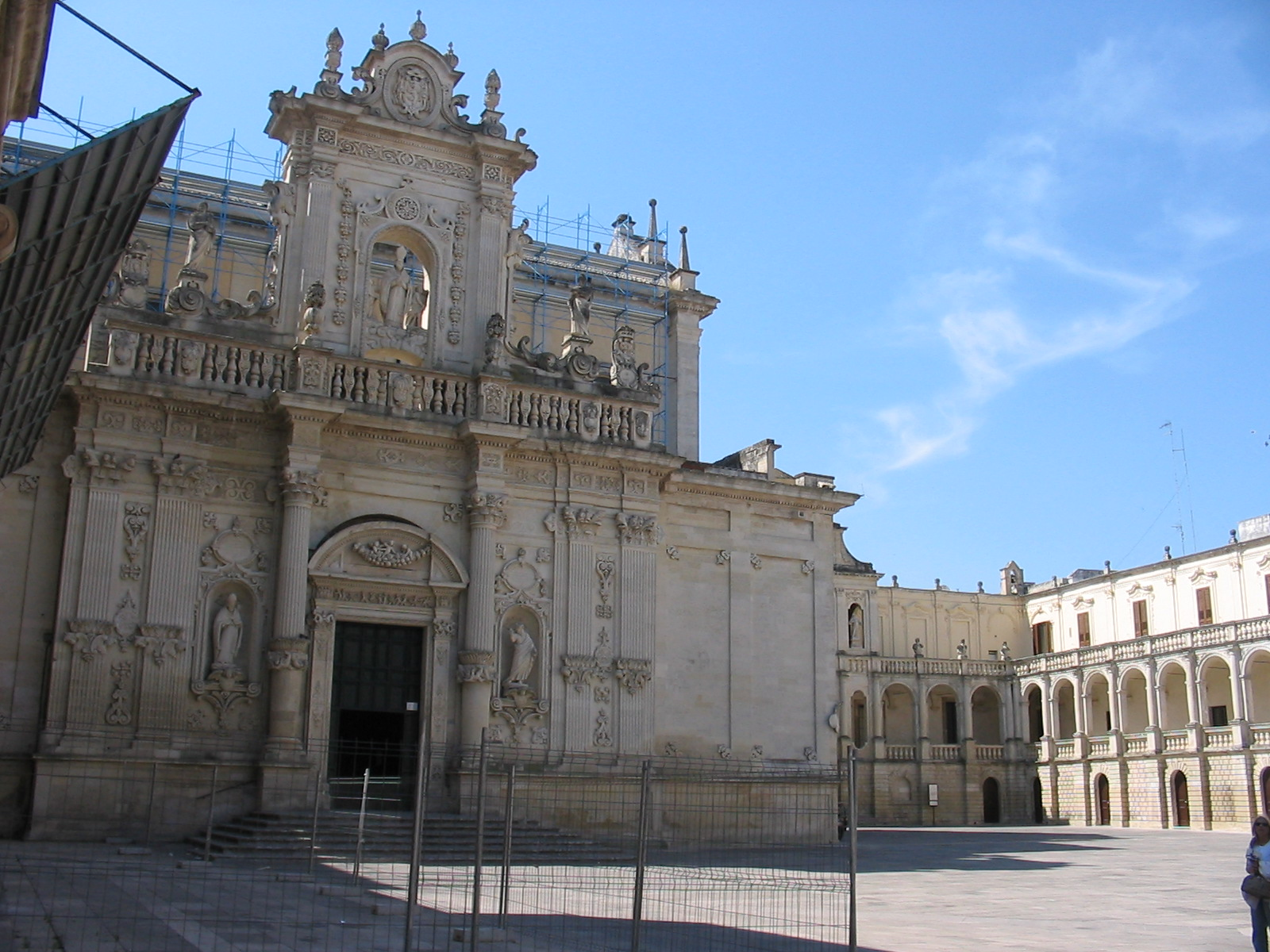 Cathedral in Lecce from the piazza